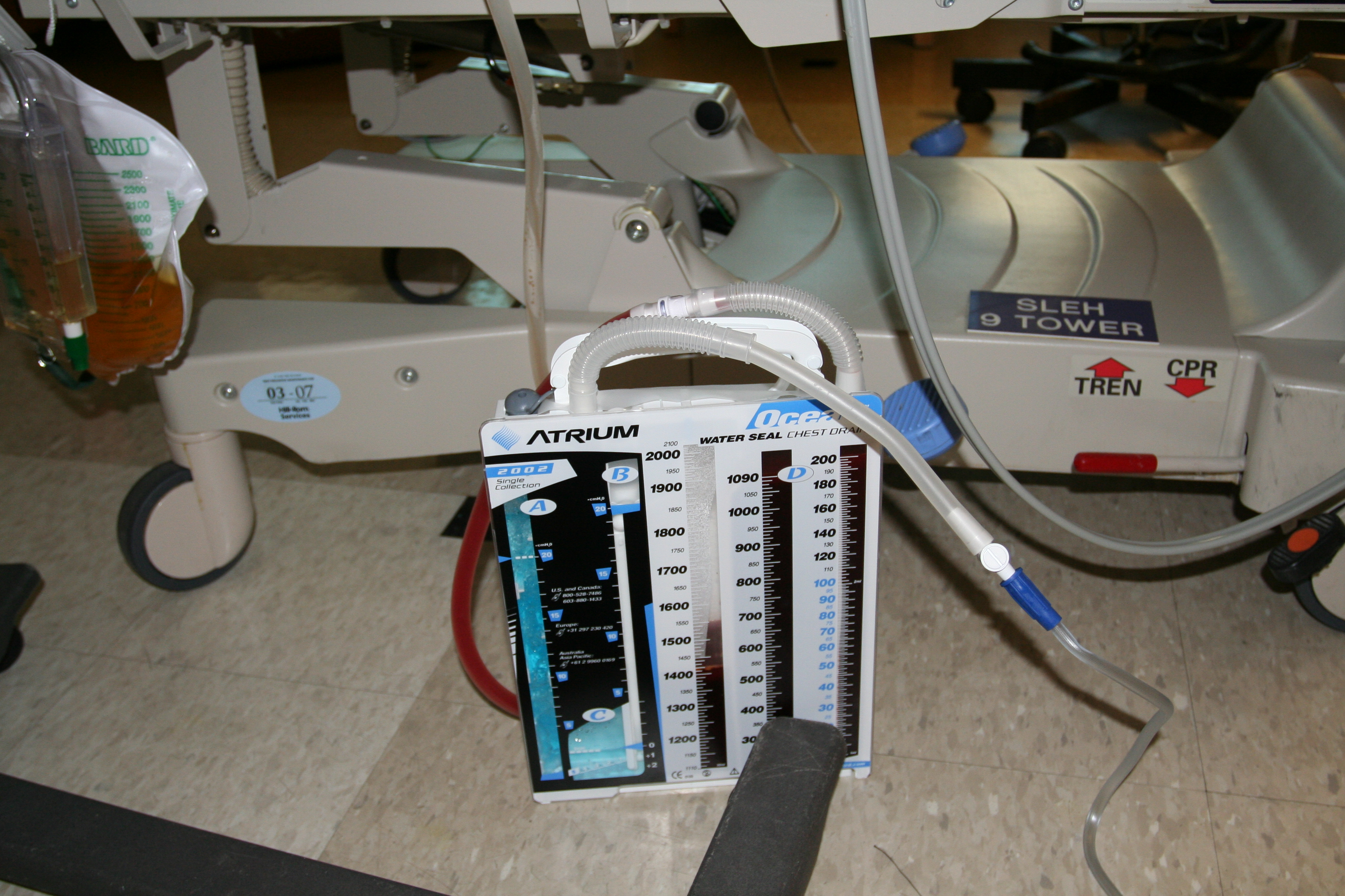 chest drain - bedside with fluids